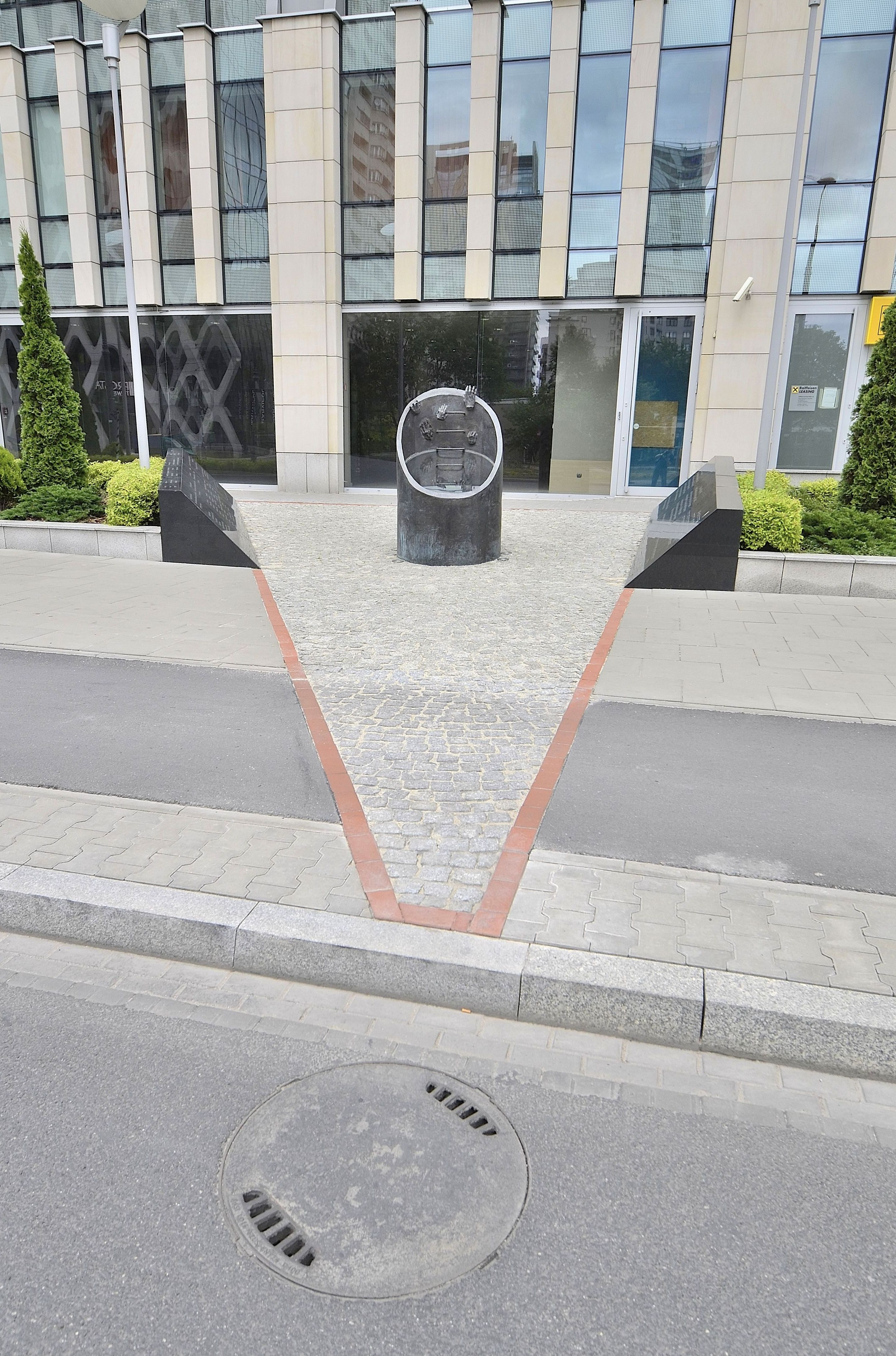 Monument to Evacuation of the Warsaw Ghetto Fighters in Warsaw